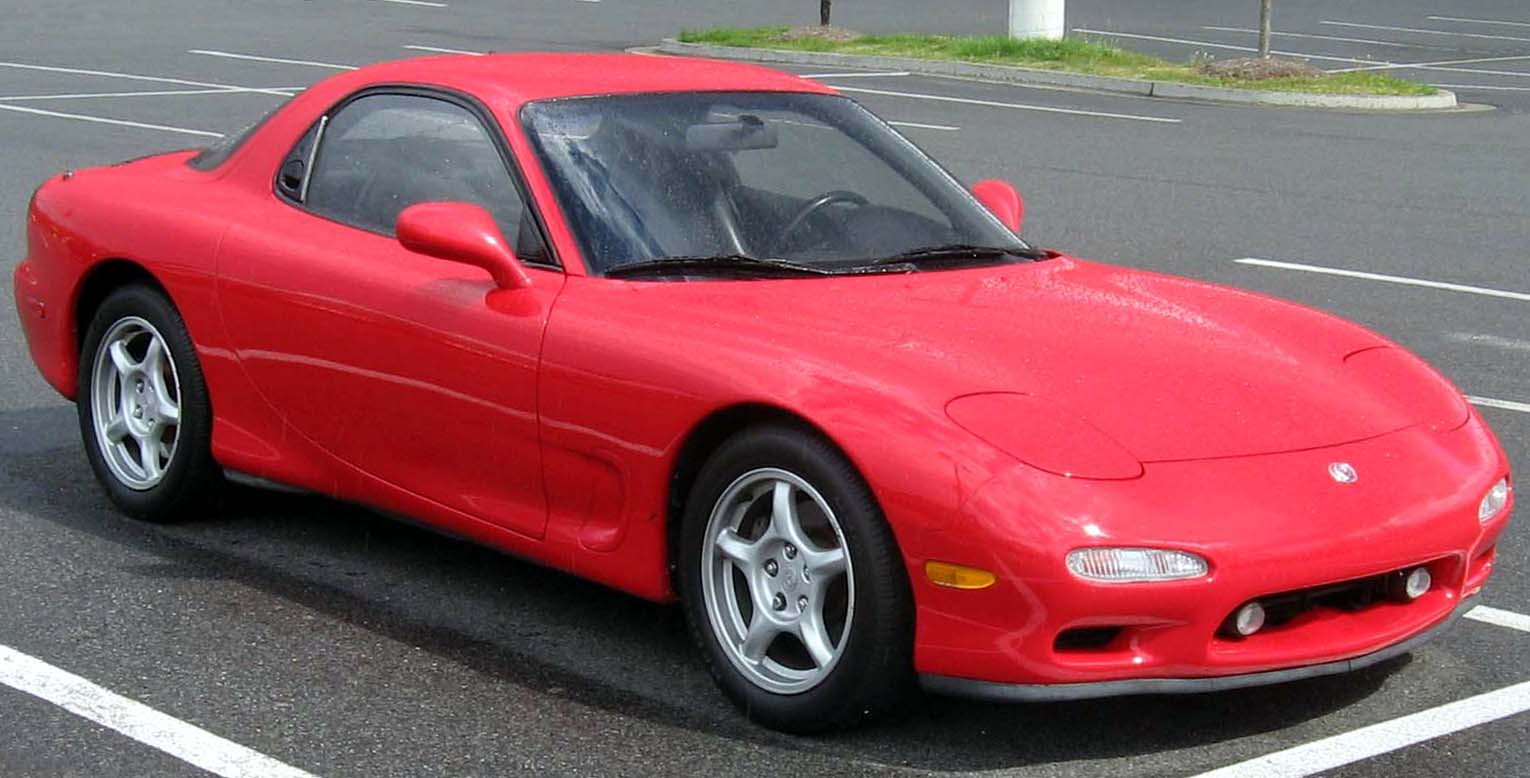 Mazda RX-7 photographed in USA.